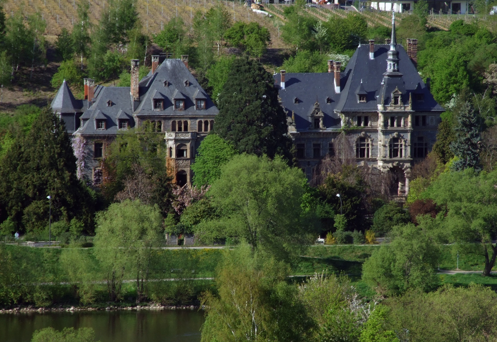 Schloss Lieser from sky